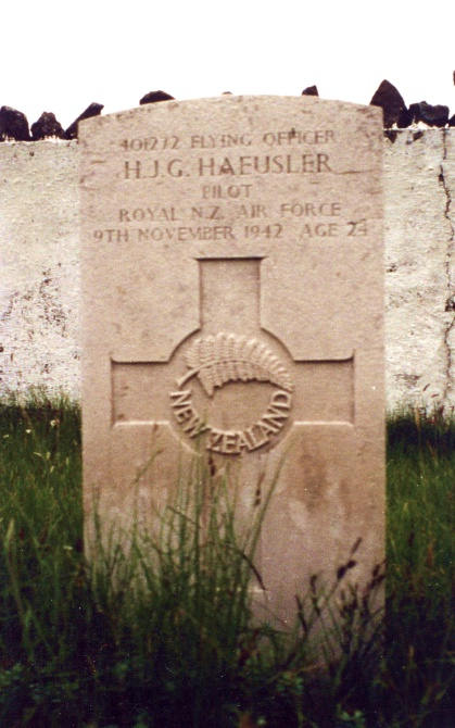 Flying Officer H. J. G. Haeusler of the Royal New Zealand Air Force died aged 24 on 9 November 1942 when his aircraft crashed between Tvøroyri and Hvalba on Suðuroy, Faroe Islands. The Faroes had been occupied by British forces since 1940 after Denmark had been invaded by Germany. His grave is near Airport Vágar.